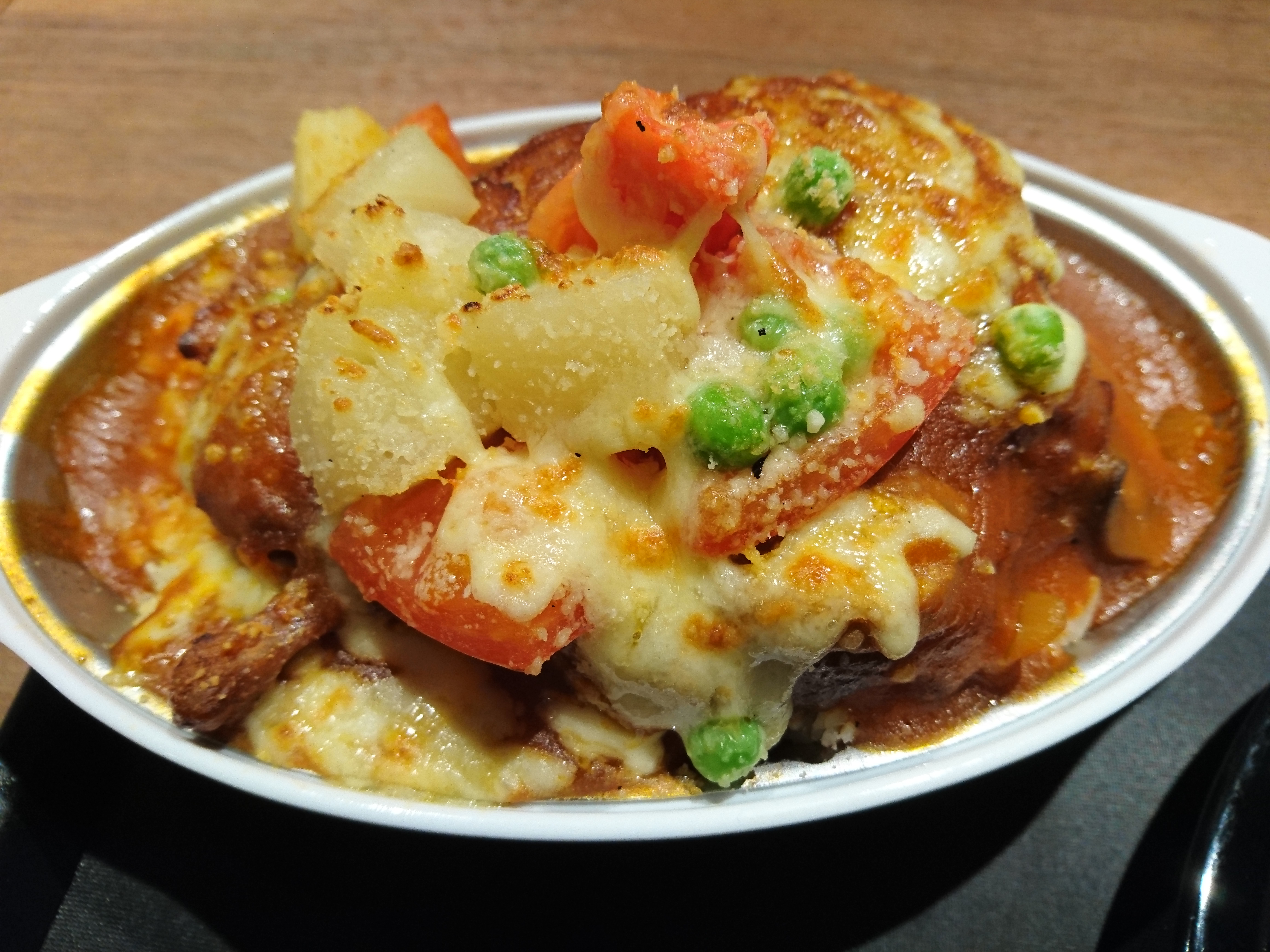 Baked Pork Chop Rice with Cheese